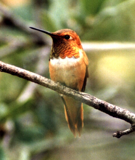 Rufous Hummingbird (Selasphorus rufus)